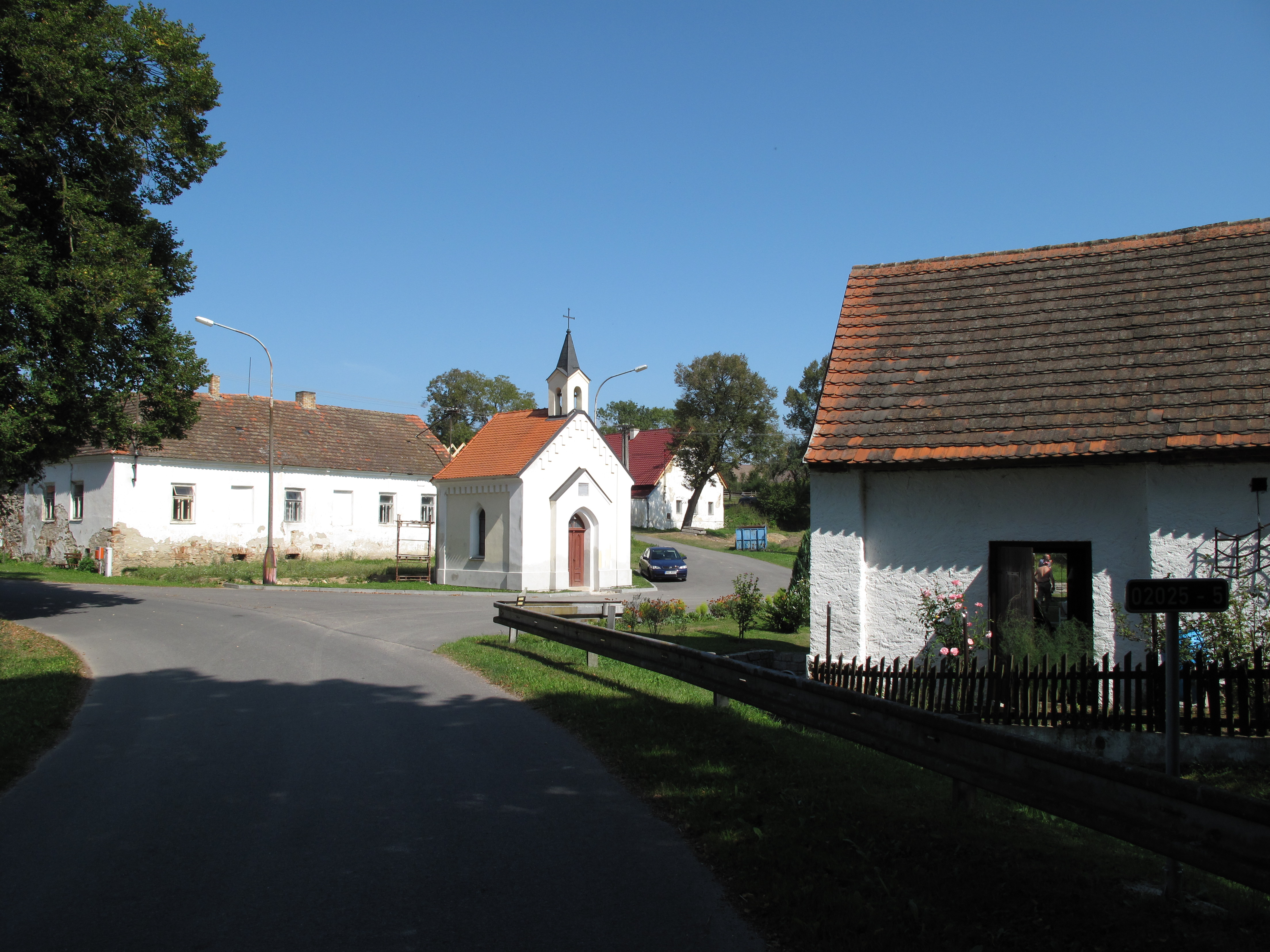 Village square as seen from the road in Držov village, Písek District, Czech Republic.